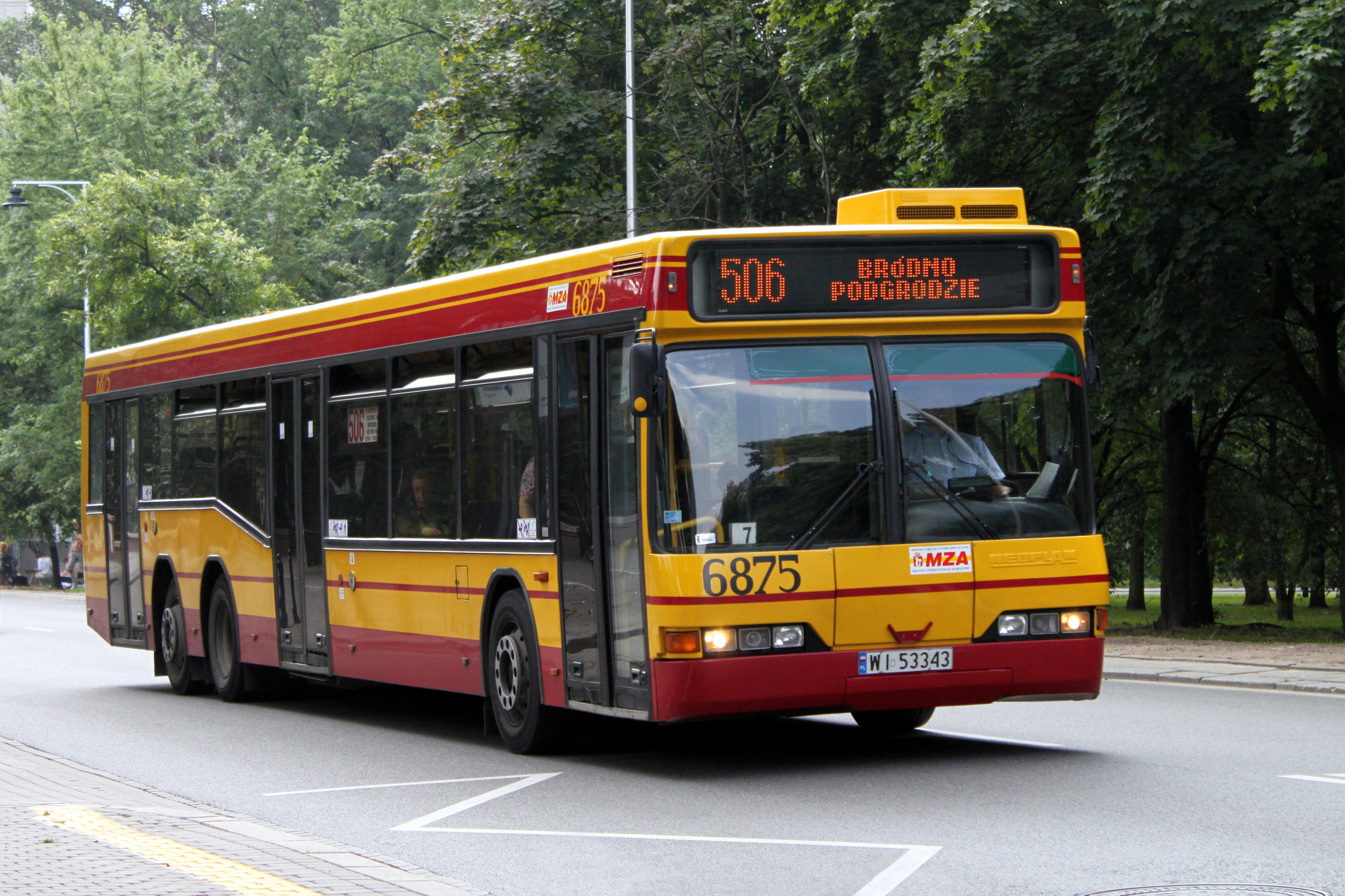 Bus Neoplan N4020td (#6875, built in 1998, MZA Warszawa operator) on line 506 on Dobra Street in Warsaw, Poland.